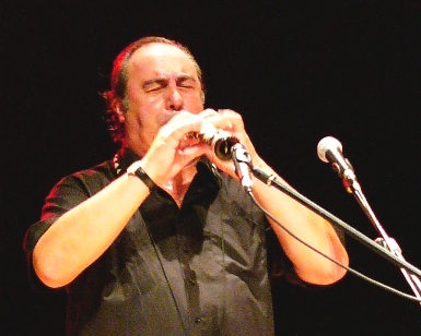 folk musician Fernando Ortiz playing dulzaina with Nuevo Mester de Juglaría in Castelló